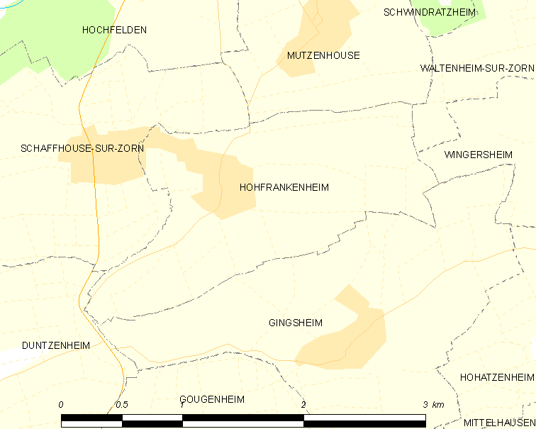 Map of French municipality